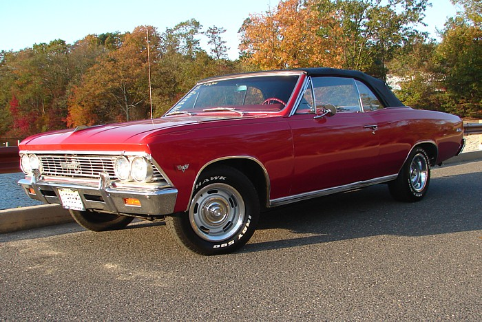 66 Chevelle Malibu SS396